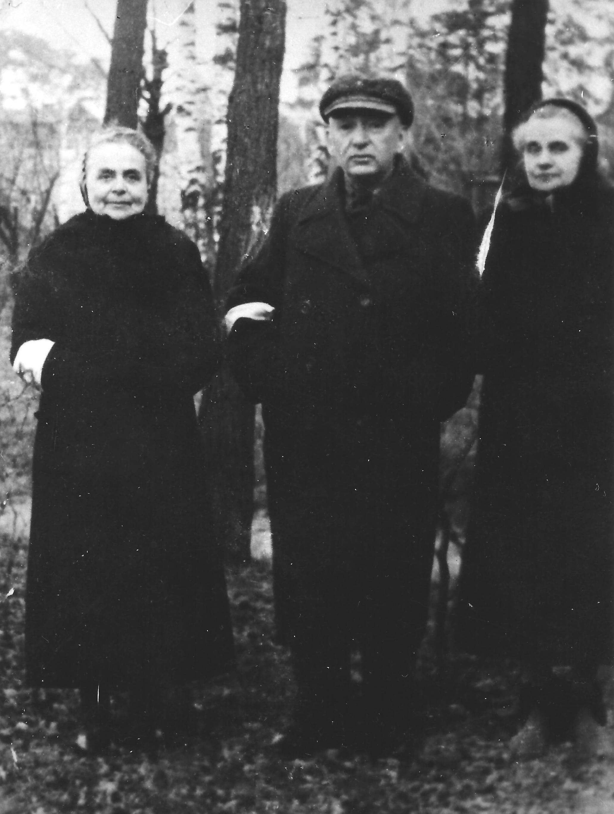 Hebrew/Yiddish Warsaw Publisher Benjamin Szymin (1880-1942) with his wife Regina (Rifka) (to the left) and her sister Malka (to the right) in Otwock ghetto, 1937